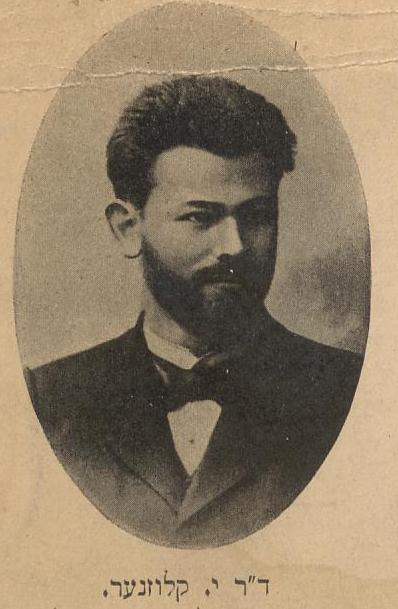 Postcard published c. 1910